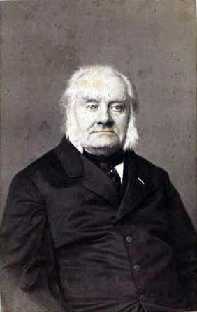 Peder Hjort (1793-1871)